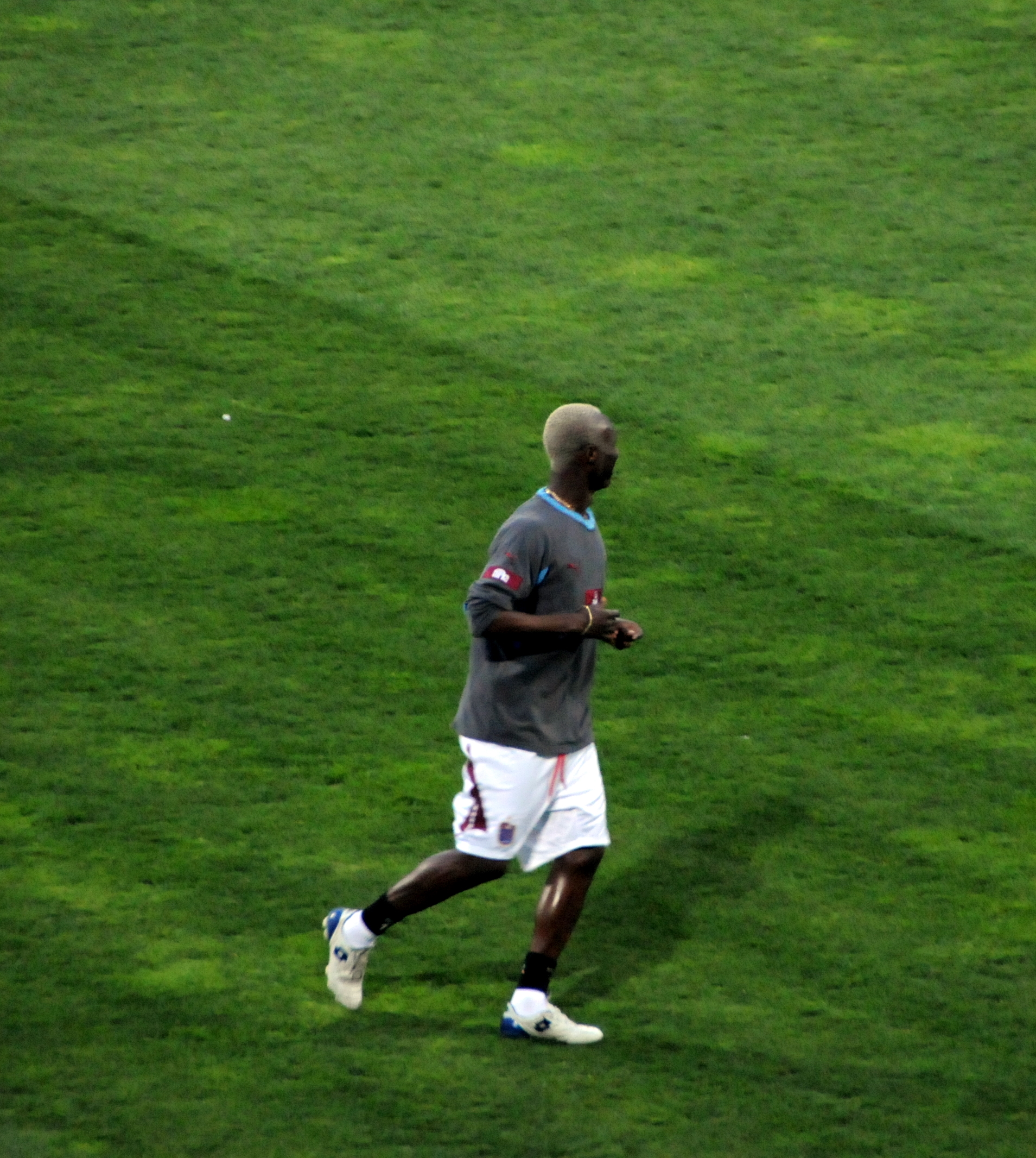 Guinean football player